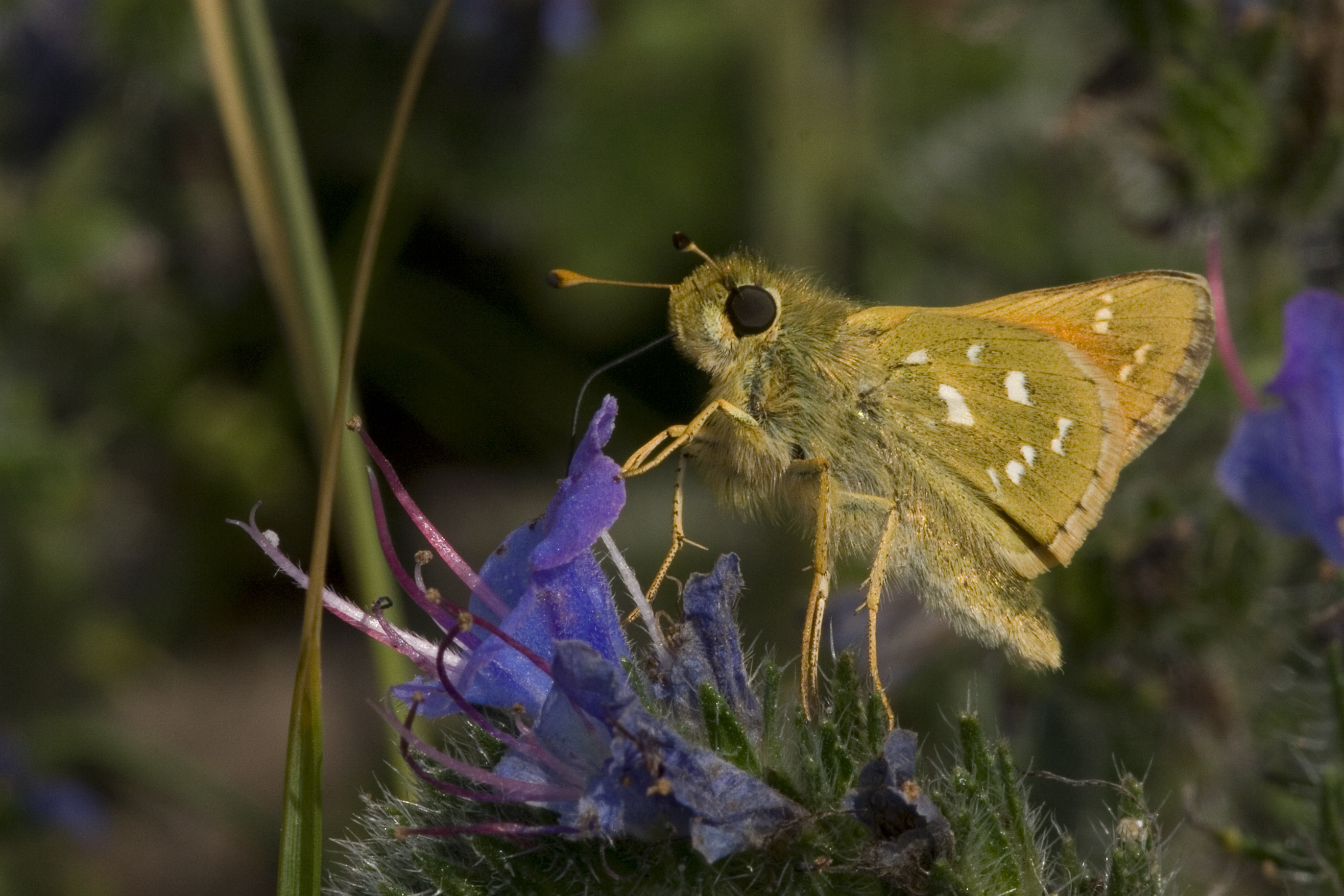 Hesperia comma